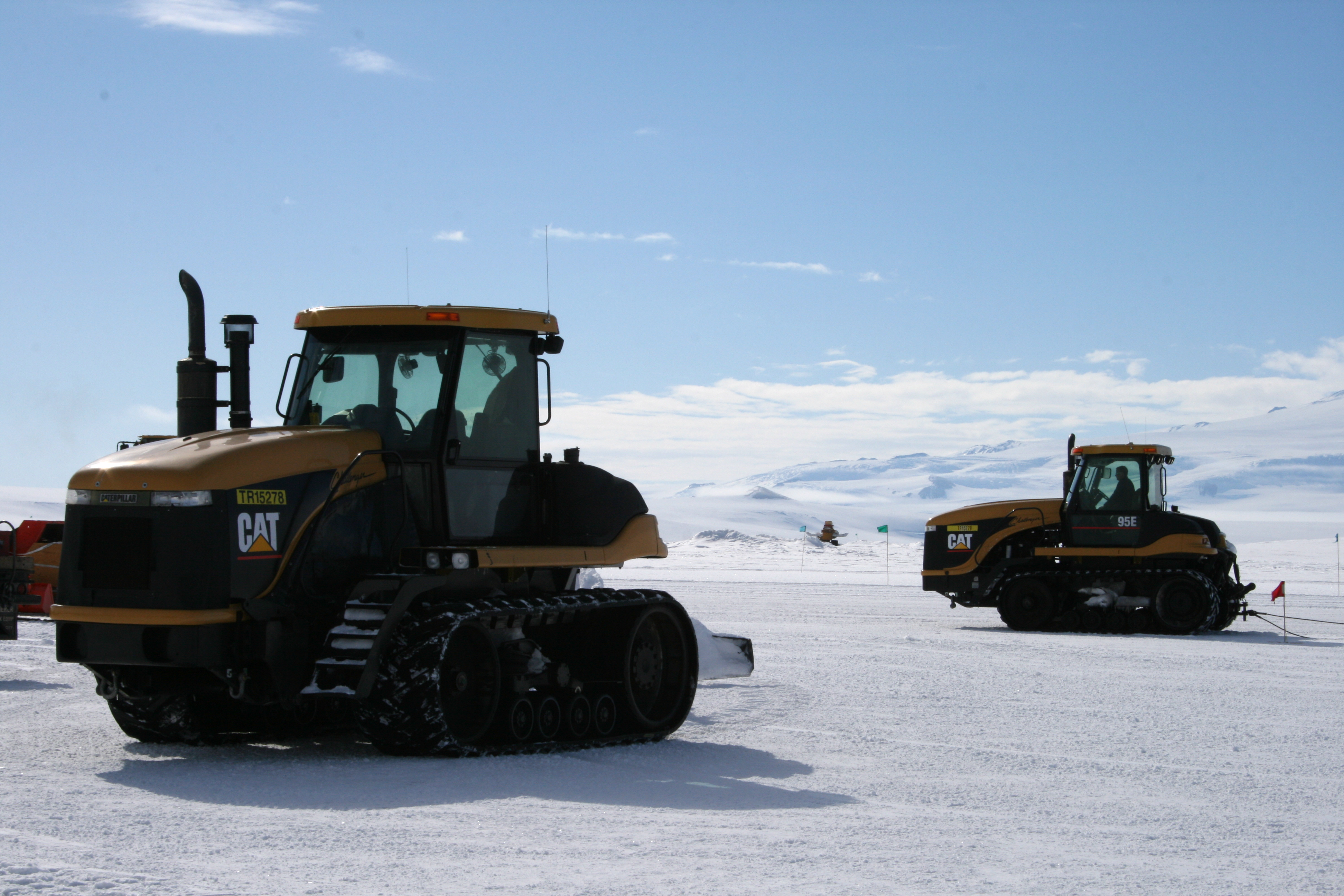 Two Caterpillar Challenger machines at Williams Field in Antarctica parked while grooming the snow runway.